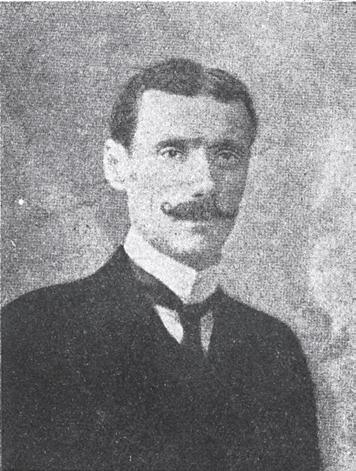 Portrait of IMARO Voivoda Georgi Peshkov